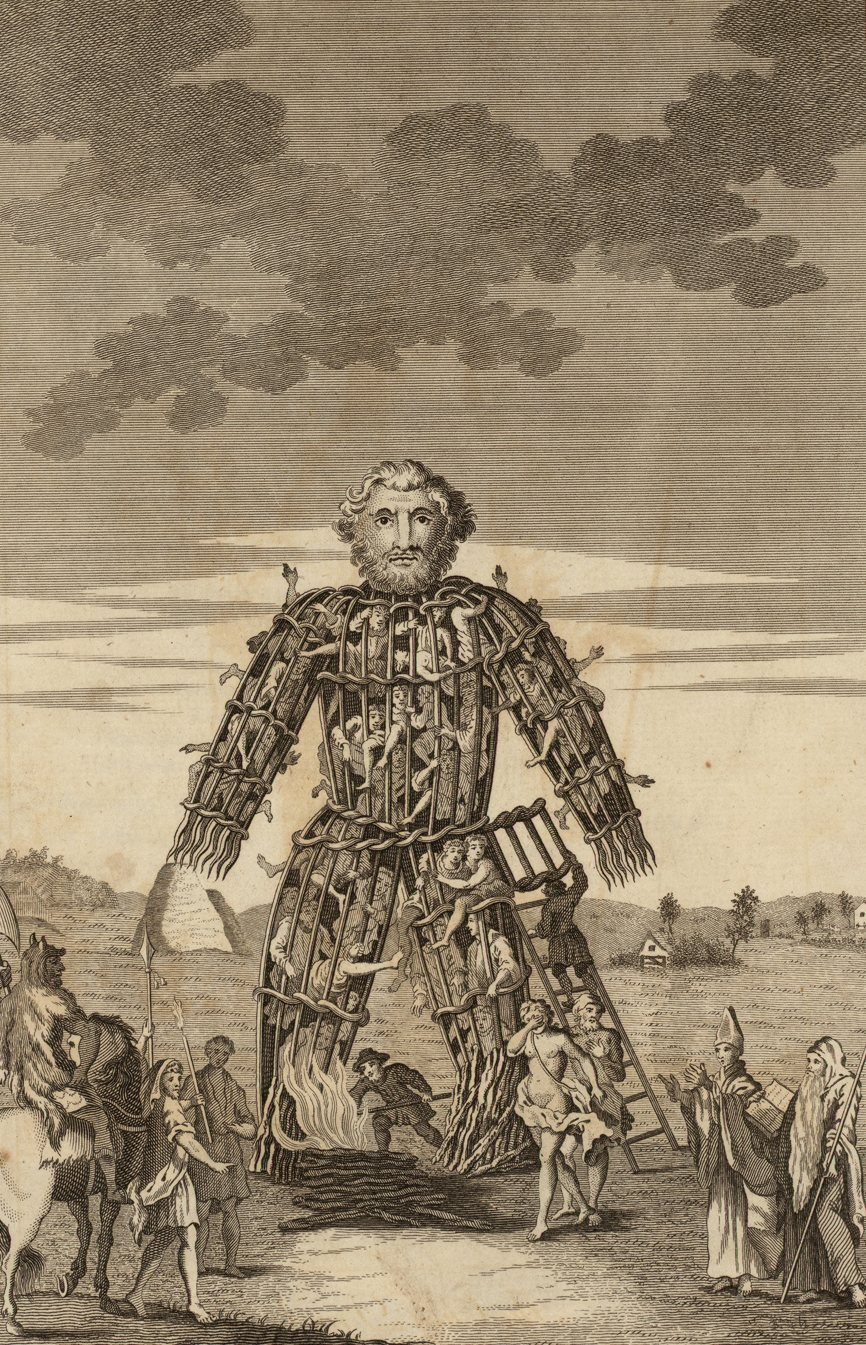 An image from a set of 8 extra-illustrated volumes of A tour in Wales by Thomas Pennant (1726-1798) that chronicle the three journeys he made through Wales between 1773 and 1776. These volumes are unique because they were compiled for Pennant's own library at Downing. This edition was produced in 1781. The volumes include a number of original drawings by Moses Griffiths, Ingleby and other well known artists of the period. Thomas Pennant (1726-1798)